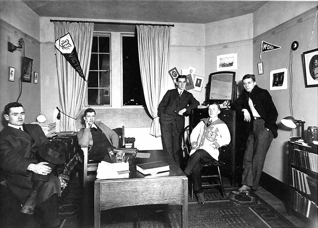 Students at Victoria College, University of Toronto, Toronto, Ontario, Canada.